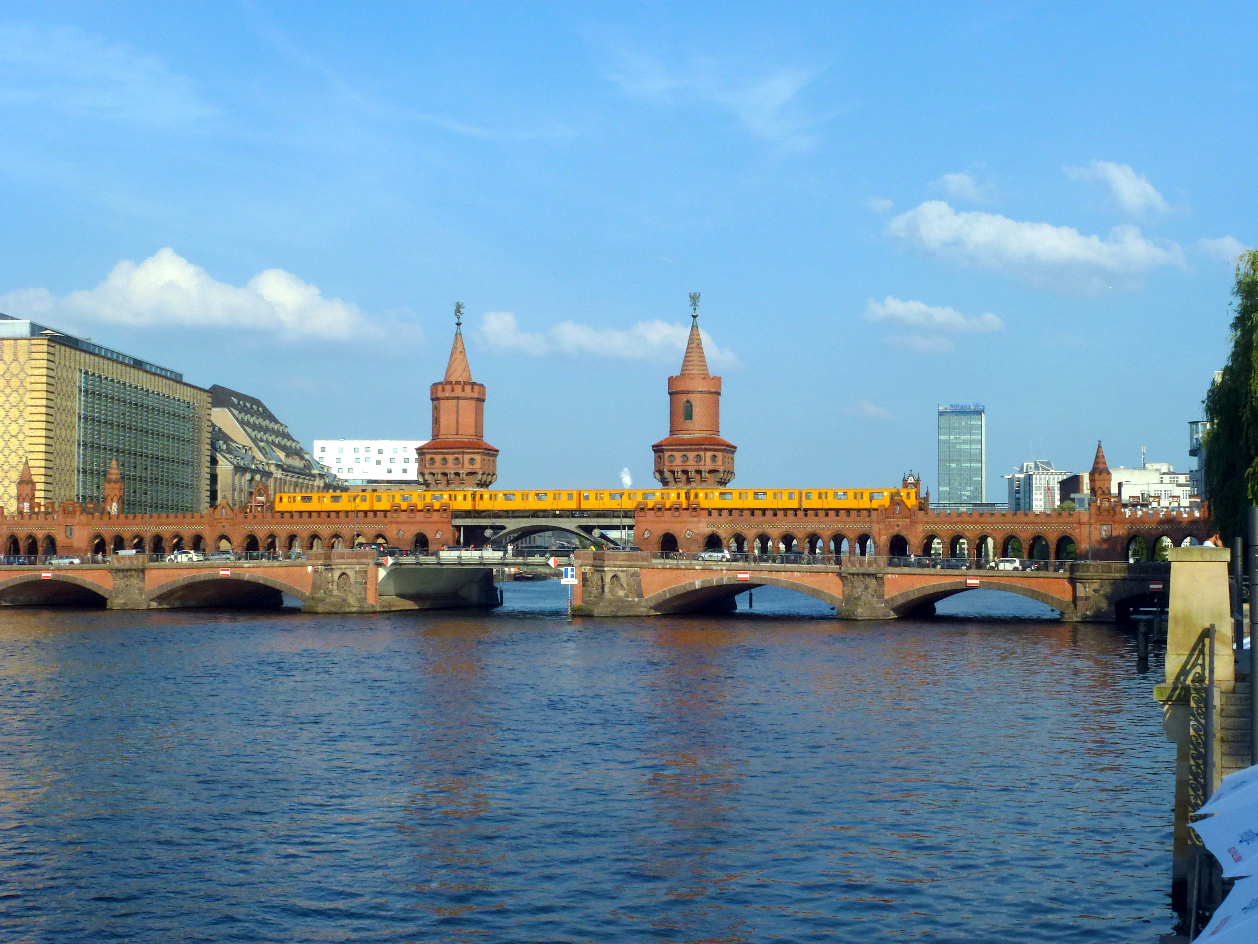 Berlin-Kreuzberg Oberbaumbrücke